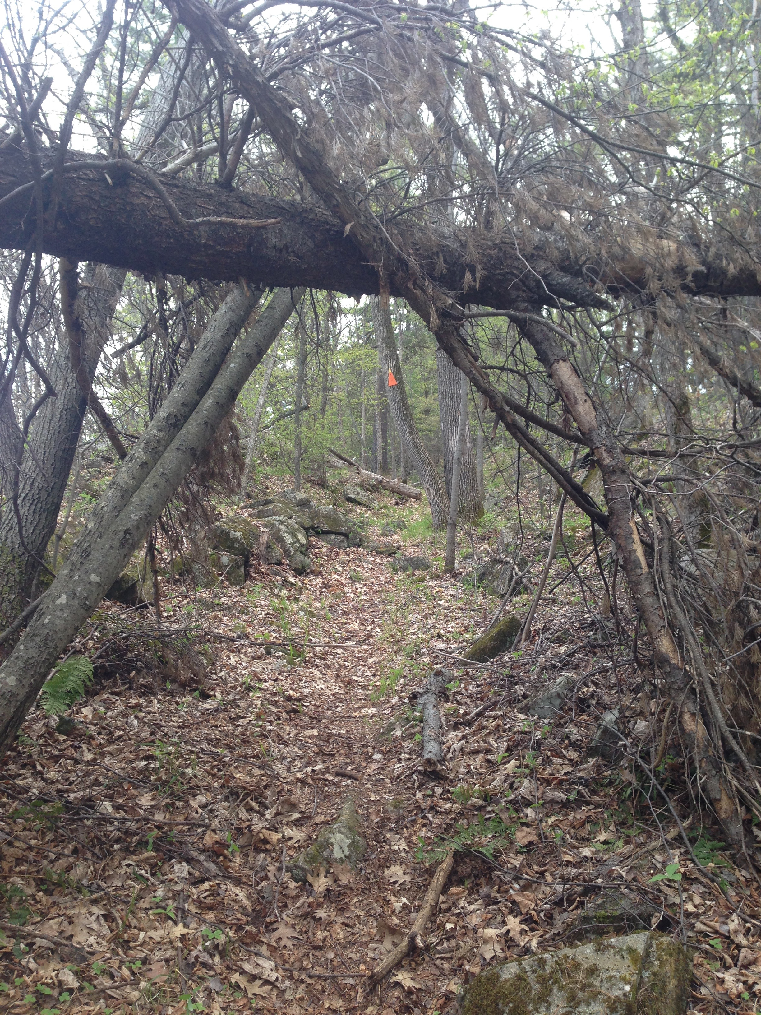 Rideau Trail in Gould Lake Conservation Area with southbound marker visible (yellow-tipped orange isosceles triangle)